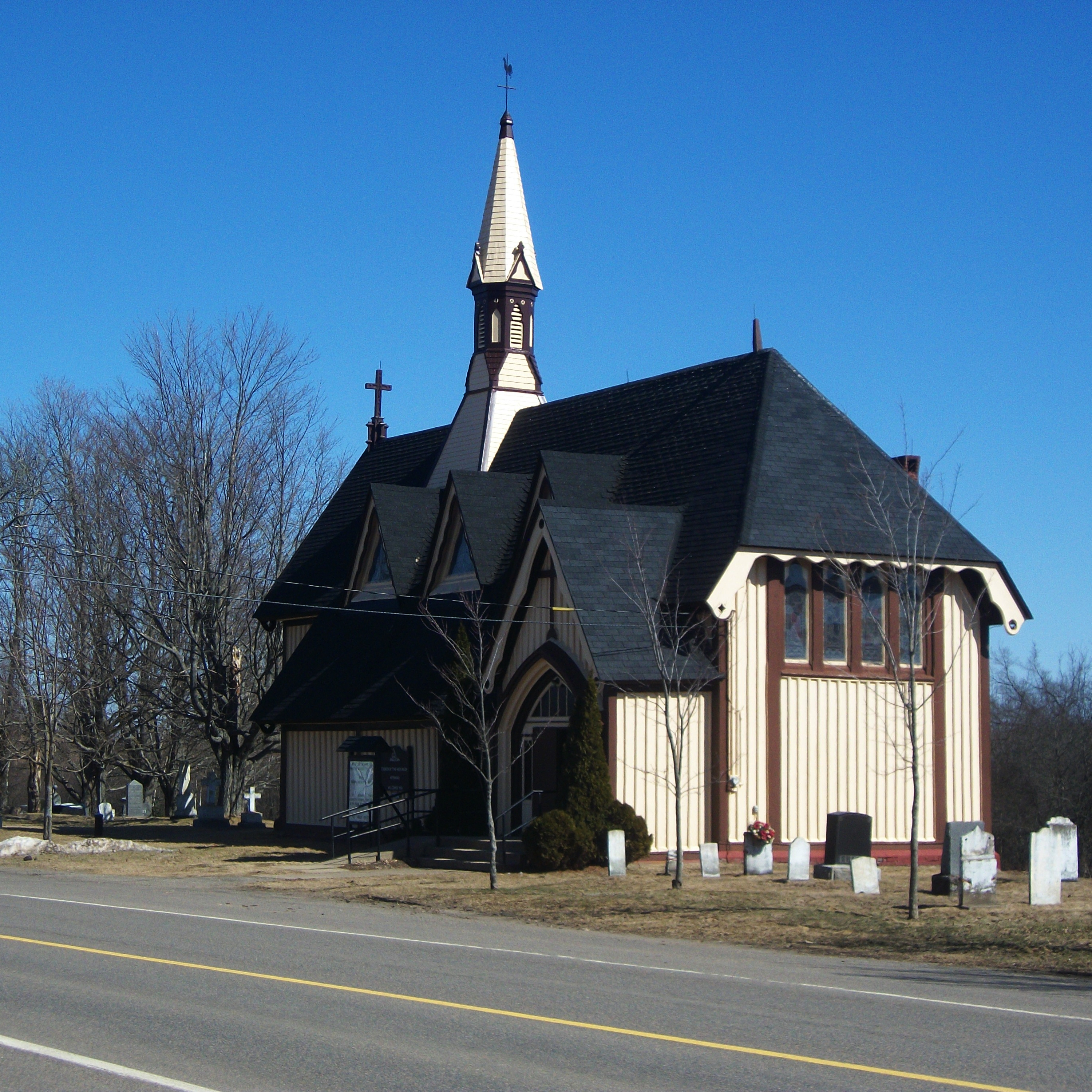 Rural church in Apohaqui, New Brunswick, Canada